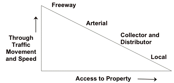 Hierarchy of roads image created by poster